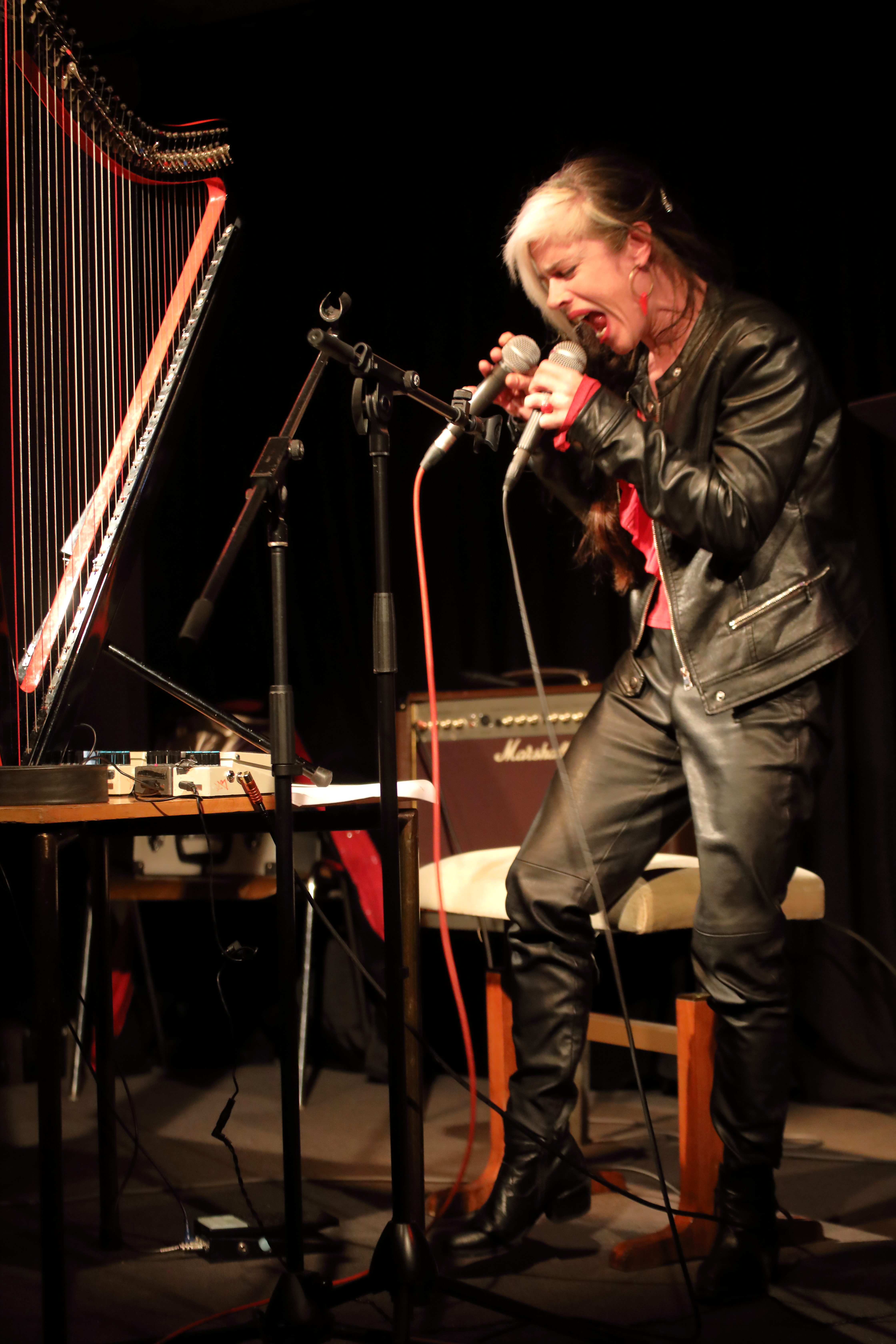 Hélène Breschand & Elliott Sharp with Chansons du Crépuscule at Club W71, Weikersheim, 2019.